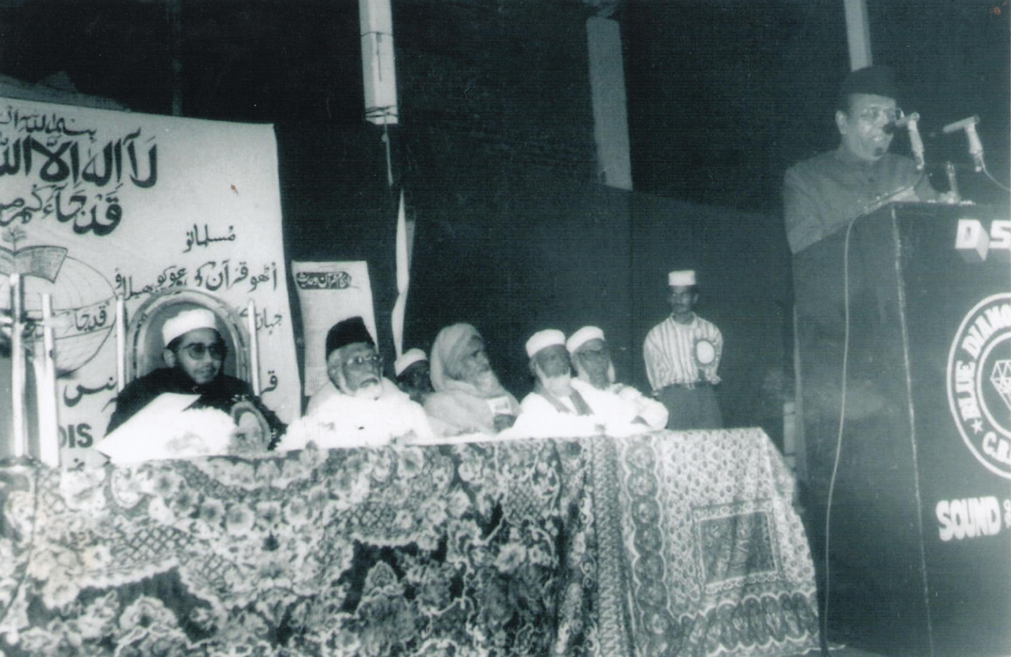 All Karnataka Quran Hadith Conference organized by Moulana Ghousavi Shah(President:All India Muslim Conference)